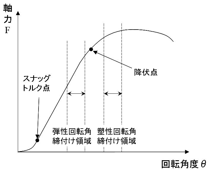 Angle control method